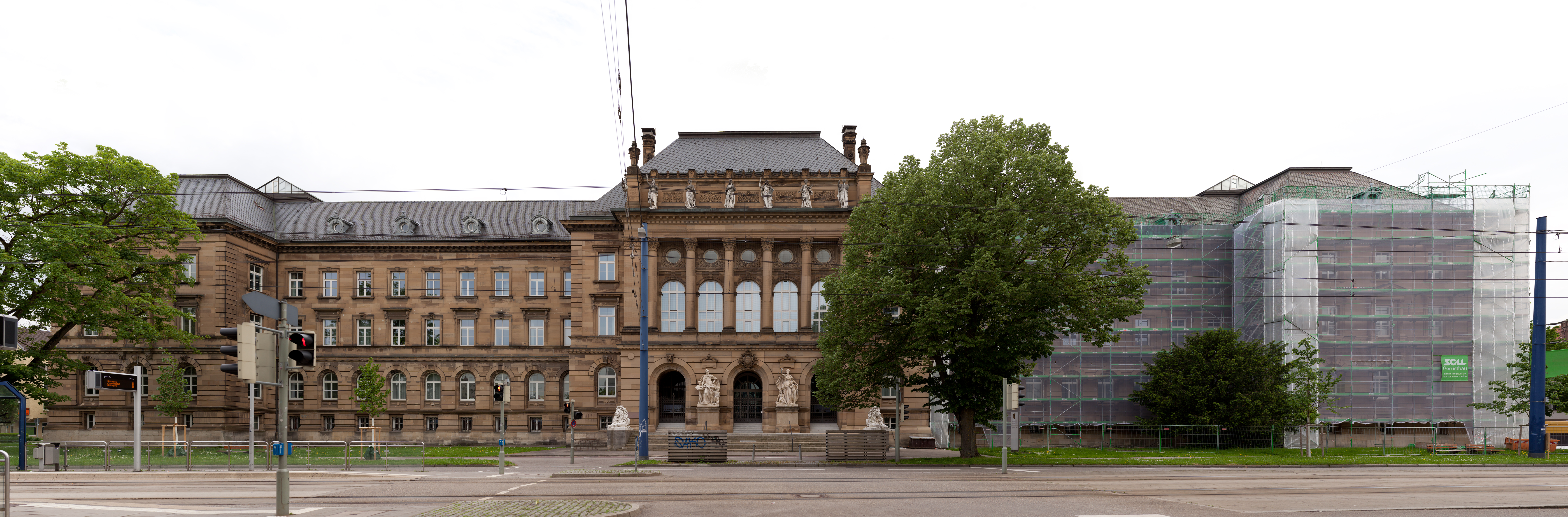 Provincial courtin of Ulm, view from tram stop "Justizgebäude" (court house) at the crossroad Olgastraße - Karl-Schefold-Straße, 2015.